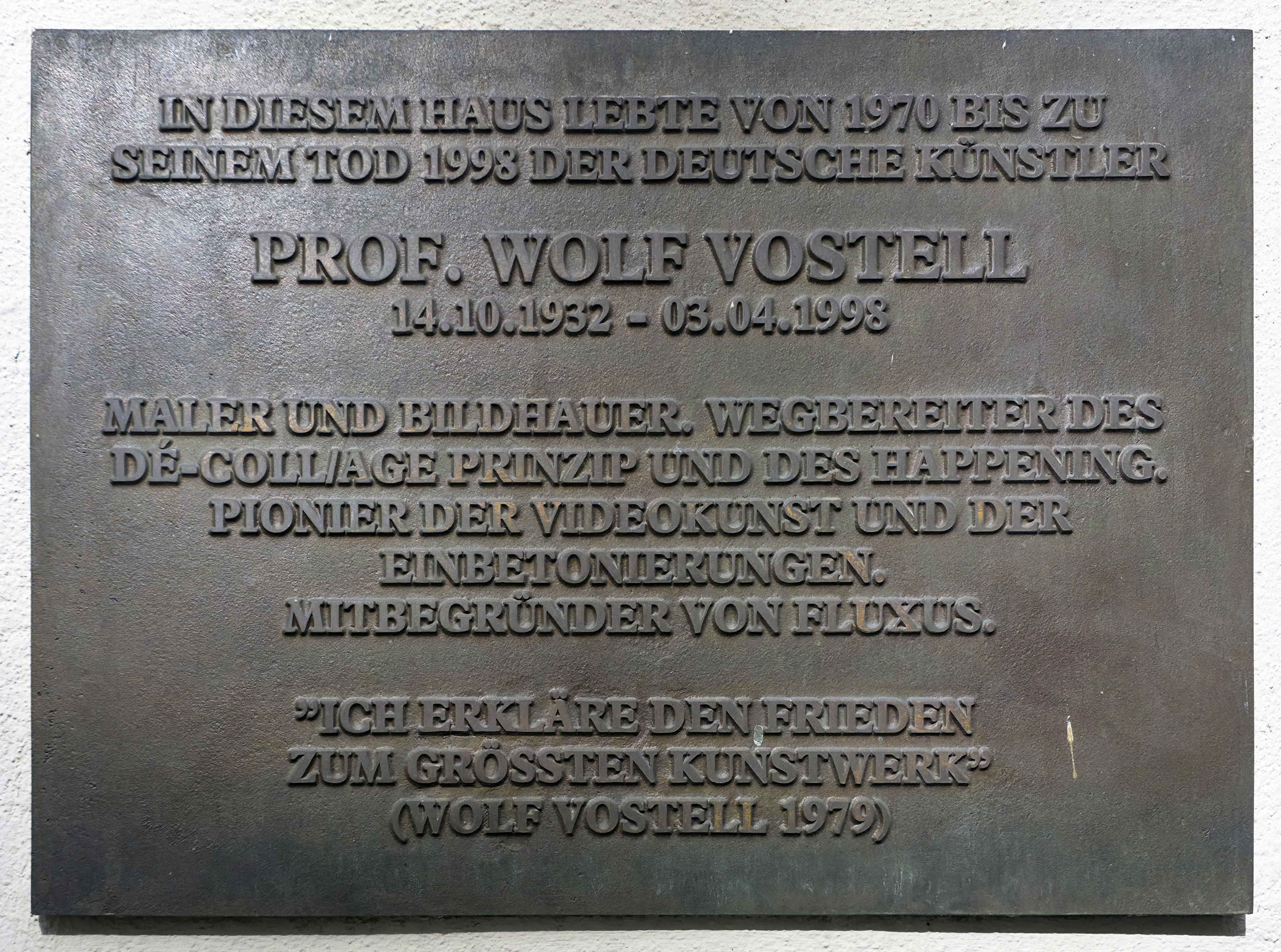 Memorial plaque, Wolf Vostell, Giesebrechtstraße 12, Berlin-Charlottenburg, Germany Koordinate:52°30′10″N 13°18′30″E / 52.50278°N 13.30833°E